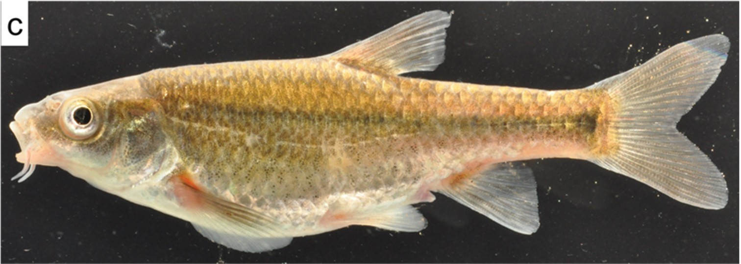 Live colours of Pseudobarbus verloreni sp. n. (SAIAB186108). Picture by W. Bronaugh.